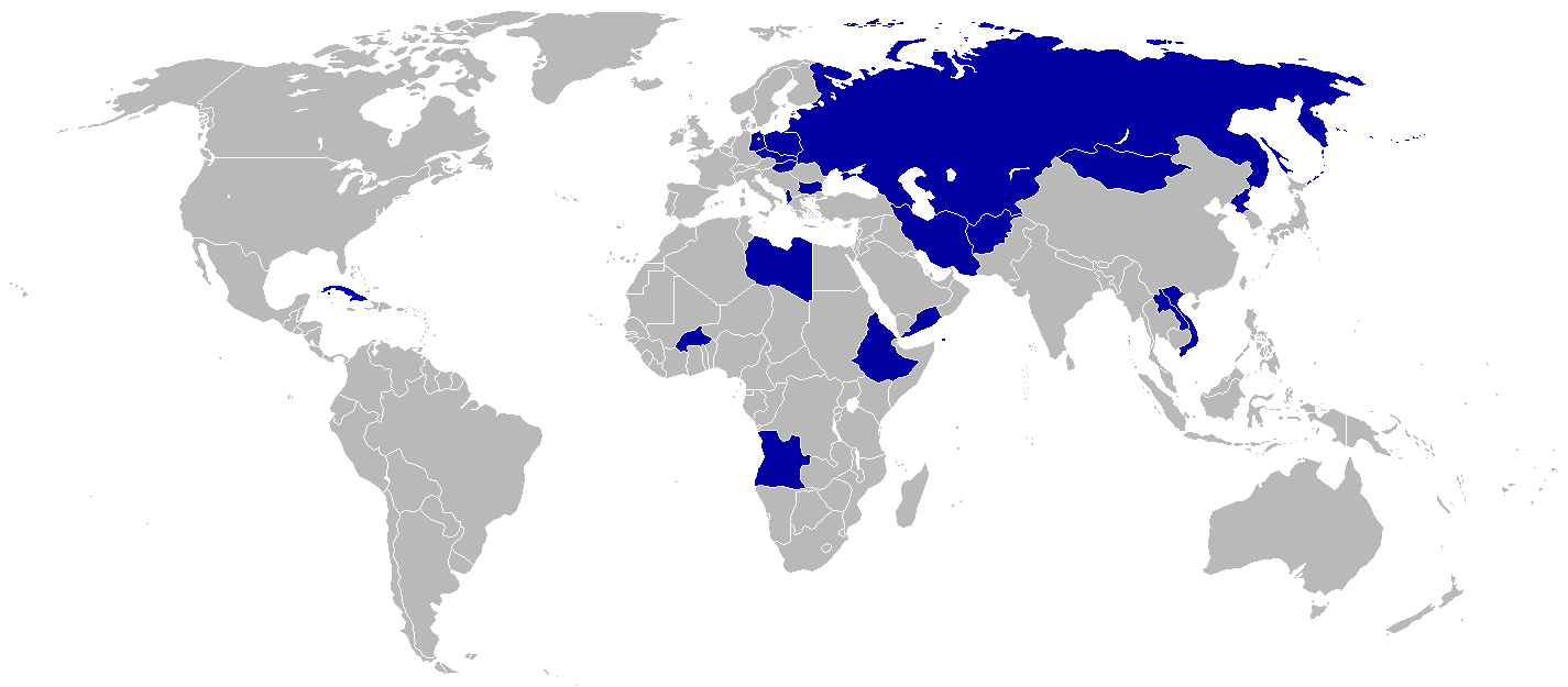 1984 Summer Olympics boycotting countries (blue color on the map)